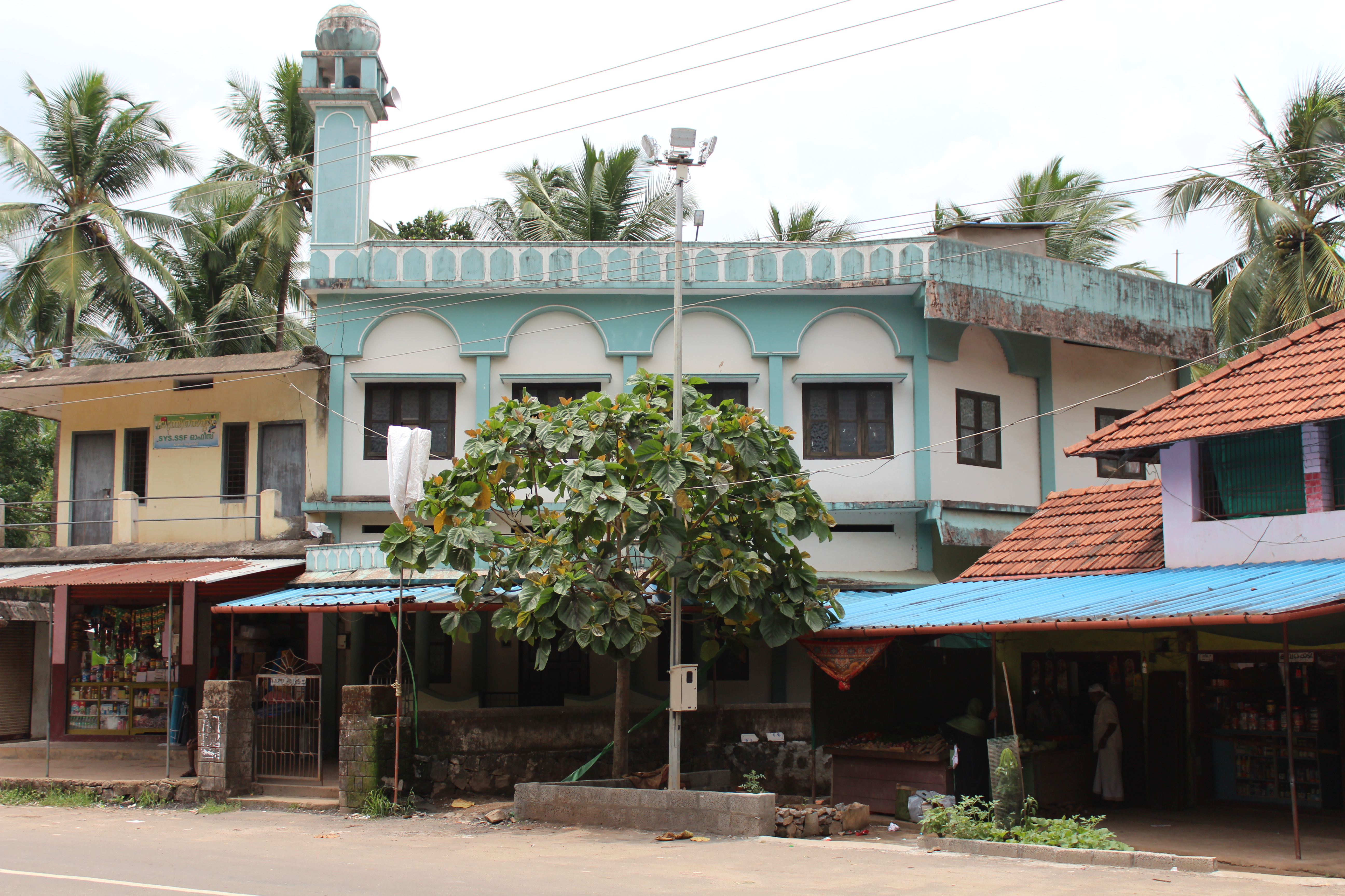 this is the main juma masjid in chamal mahal